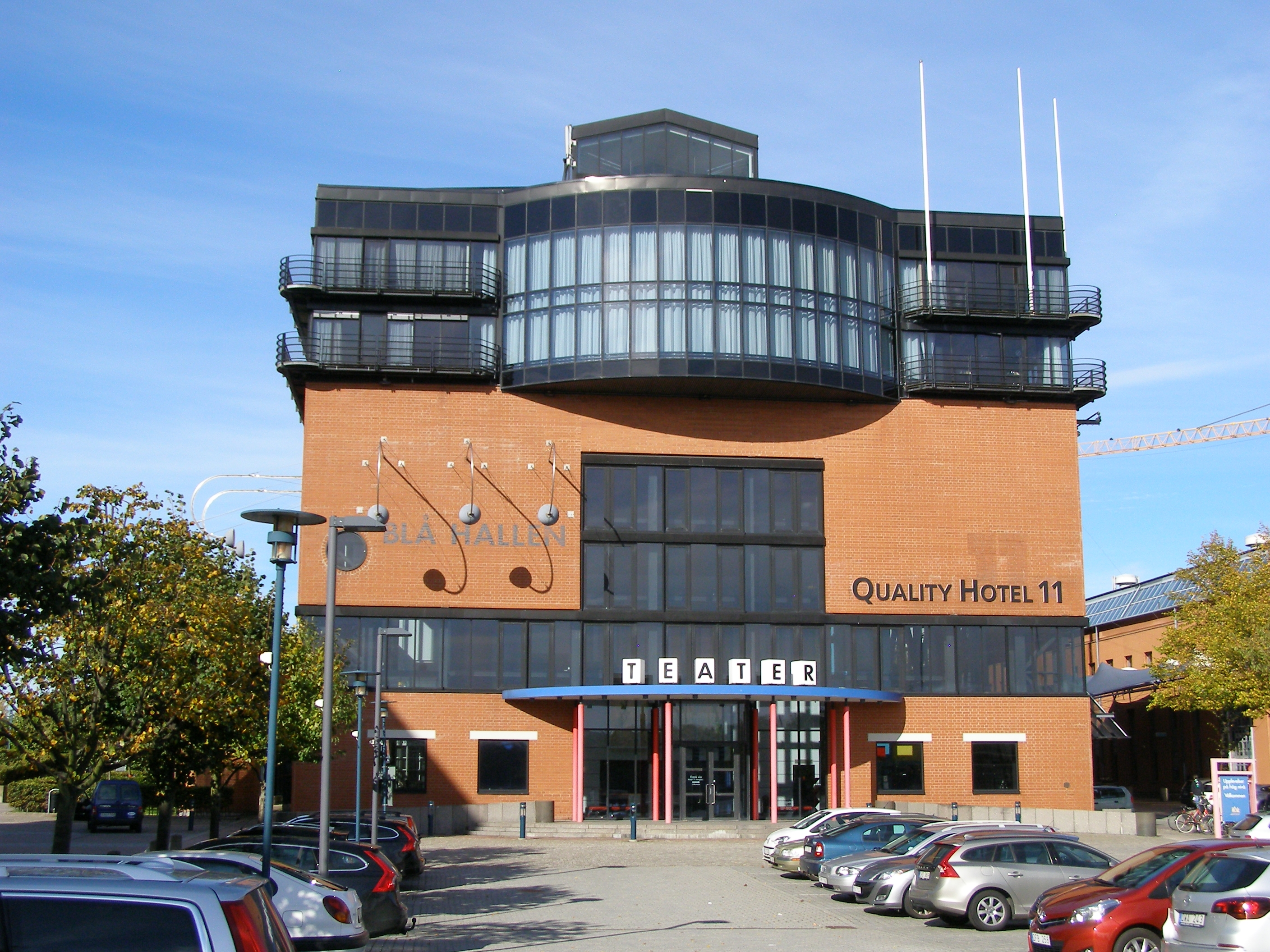 Gothenburg - Eriksberg